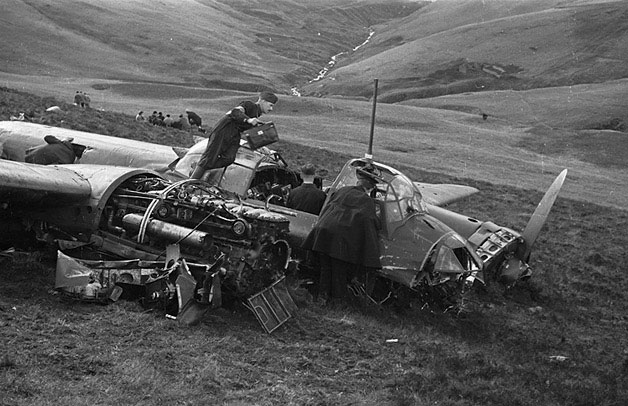 German Junkers 88 aircraft shot down near Mallwyd on it's way to Liverpool. Medium: Film negative Reference: (gcc02311) Record no: 347237 More information about the Geoff Charles Collection at the National Library of Wales More photographs of Wales and the English border during the Second World War can be found at .uk